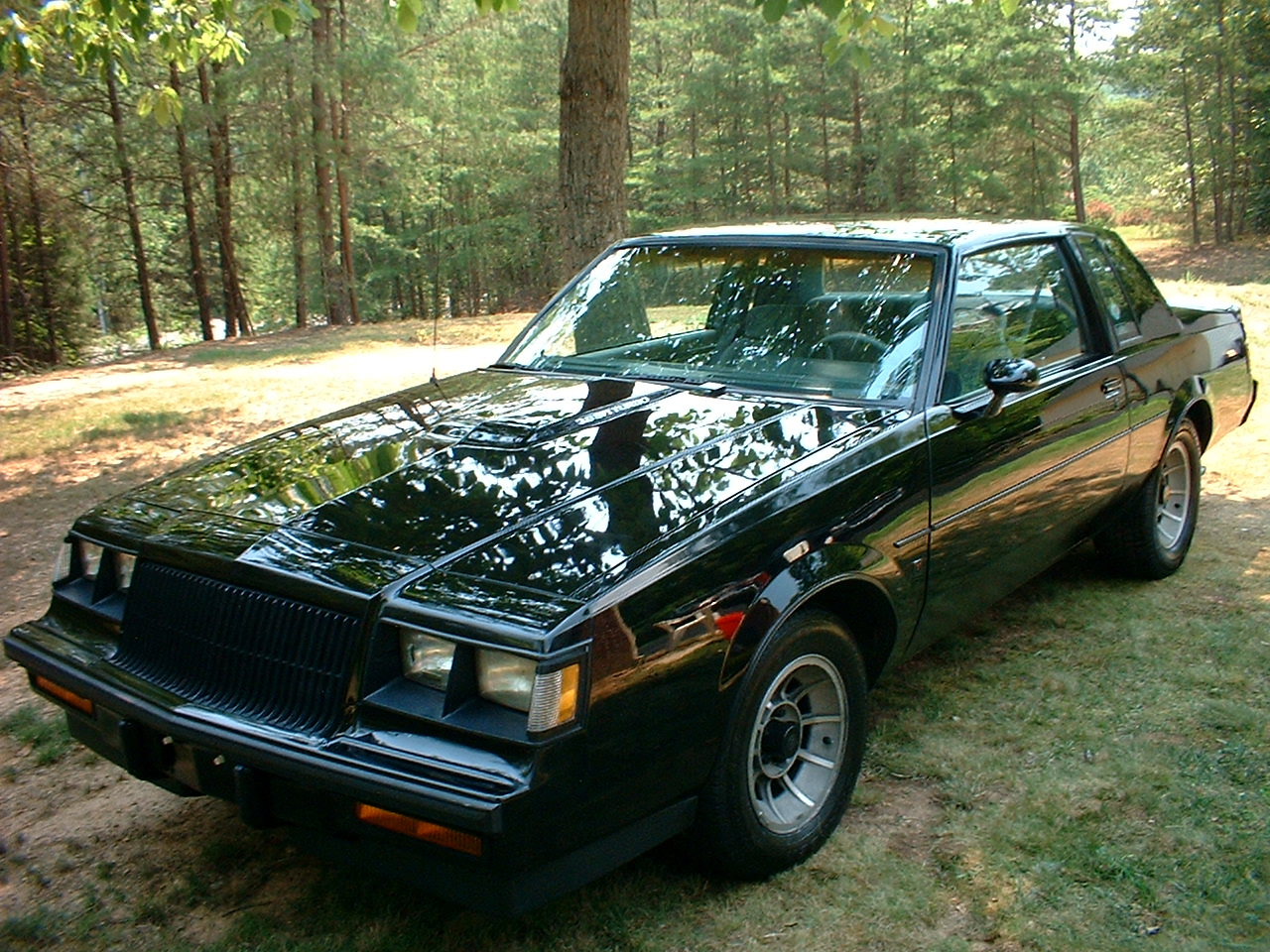 This picture is of a 1987 Buick Regal WE4 (Turbo T). It was taken by myself in July 2007. While mostly correct, the car is missing the "Buick" grille emblem and rear quarter "Regal" emblems. There is also a rear spoiler, which was not included in the WE4 package. This picture should be included in the article Buick Regal.